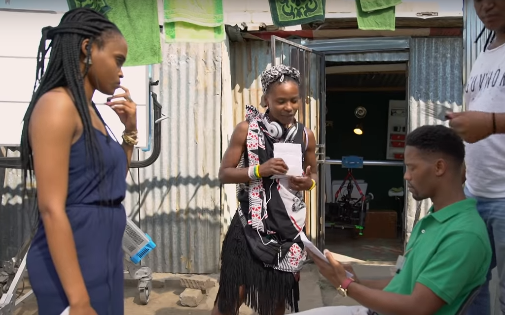 Directing Lerato Walaza as Zamo in MTV Shuga DS series 2